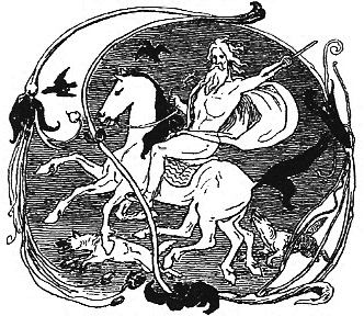 Odin riding Sleipnir, while his ravens Huginn and Muninn, and his wolves Geri and Freki appear nearby. The illustration appears at the end of Hárbarðsljóð, but does not illustrate a scene from the poem. The illustration appears pretty small there, resulting in this small scan.